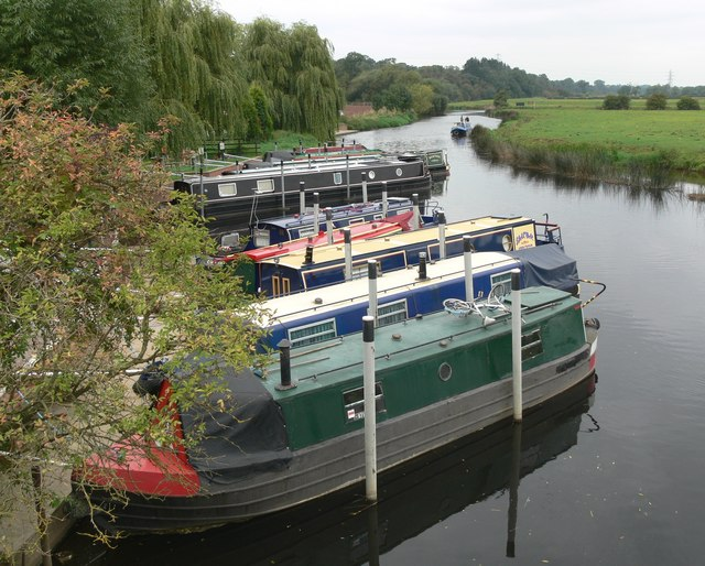 Narrow boats at Zouch Bridge Along the River Soar on the border of Leicestershire and Nottinghamshire.